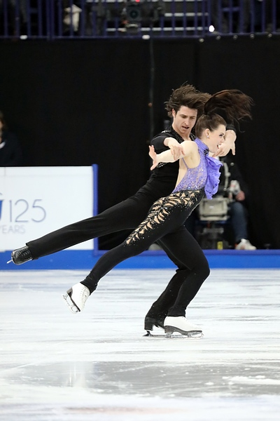 Tessa Virtue and Scott Moir at the 2017 World Championships